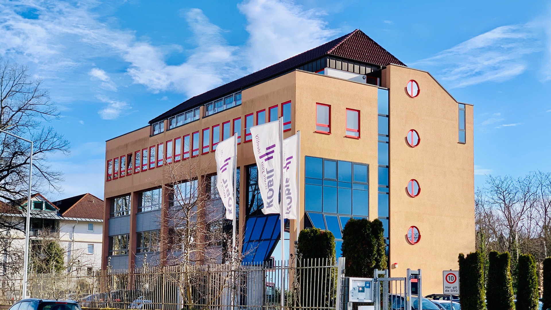 KOBIL Headquarters in Worms, Germany